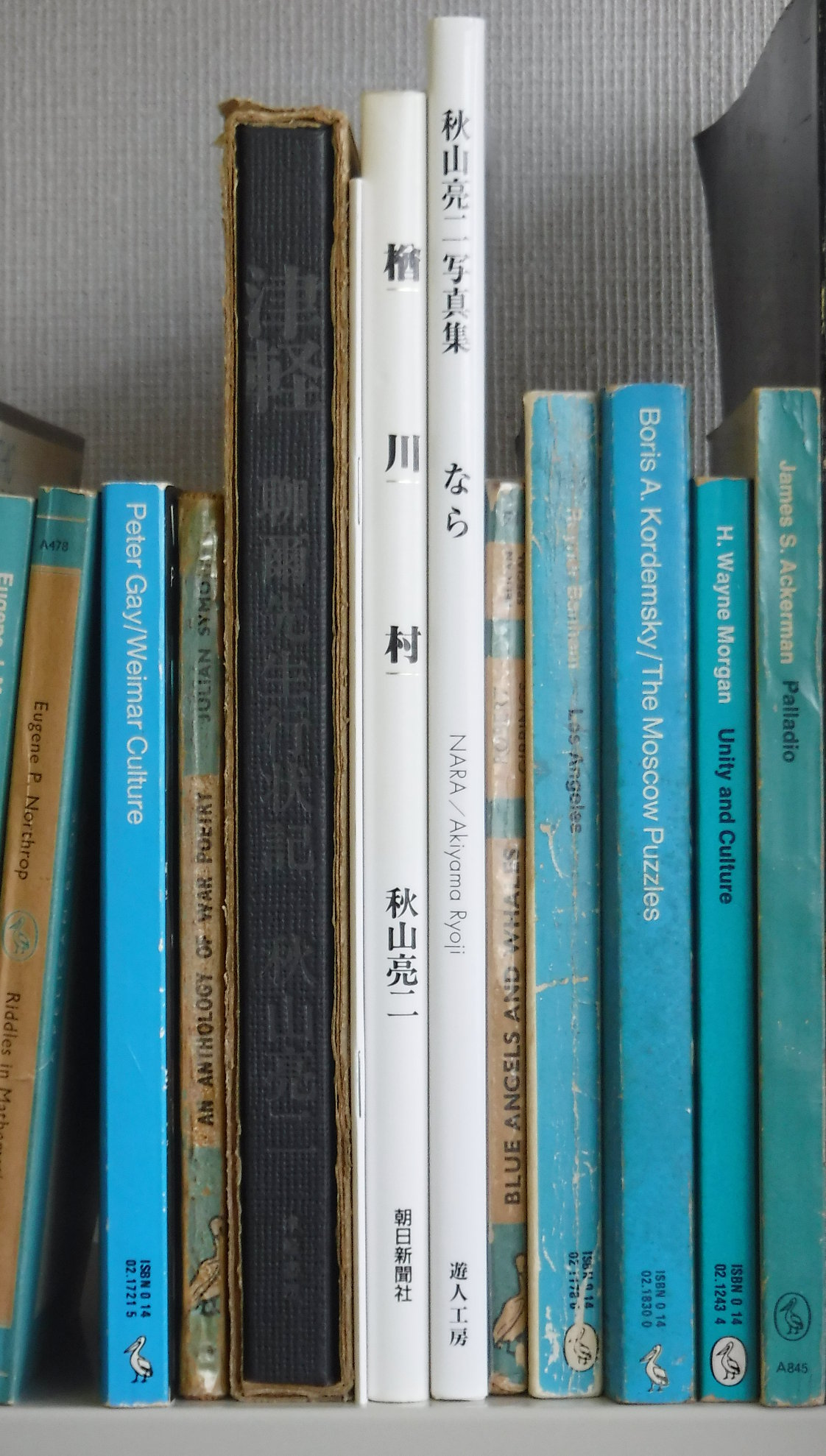 Books by Ryōji Akiyama (flanked by irrelevant Pelicans); left to right: Tsugaru (book); Tsugaru (exhibition catalogue); Narakawa-mura; Nara